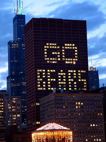 CNA Plaza (Chicago, Illinois, USA) showing "Go Bears" lighted window display during a Chicago Bears Sunday Night Football game.